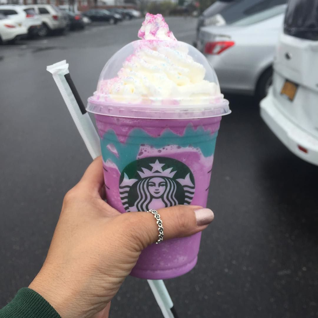 The Unicorn Frappuccino was a drink created by Starbucks, made with ice, milk, pink powder, sour blue powder, crème Frappuccino syrup, mango syrup, and blue drizzle.